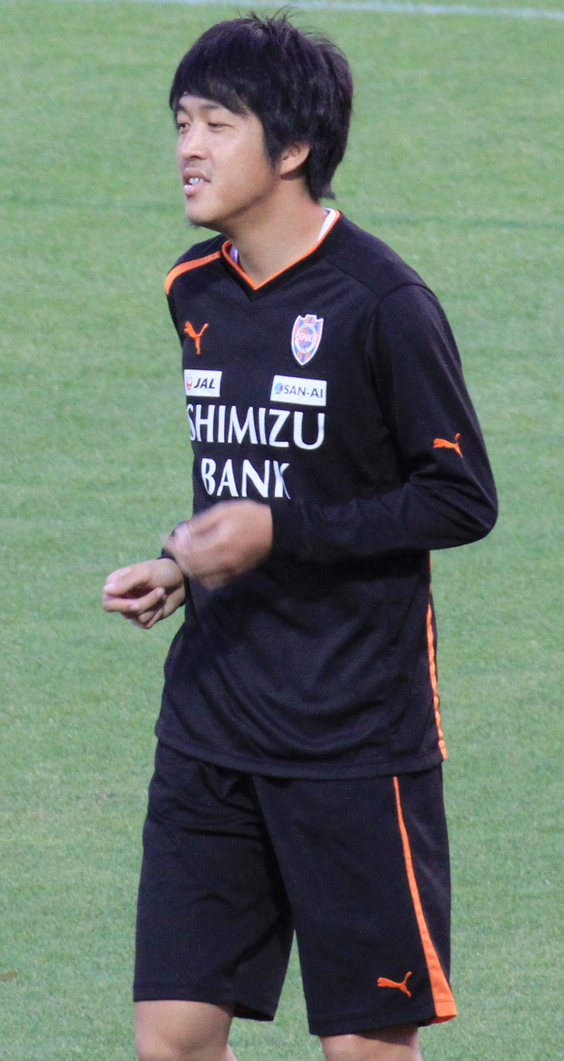 Sho Ito (?) and Naohiro Takahara of Shimizu S-Pulse.